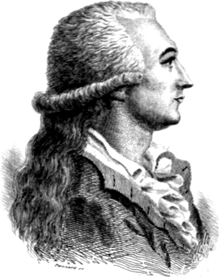 Marie-Joseph Chénier (1764-1811), French Politician, Writer, and Playwright.